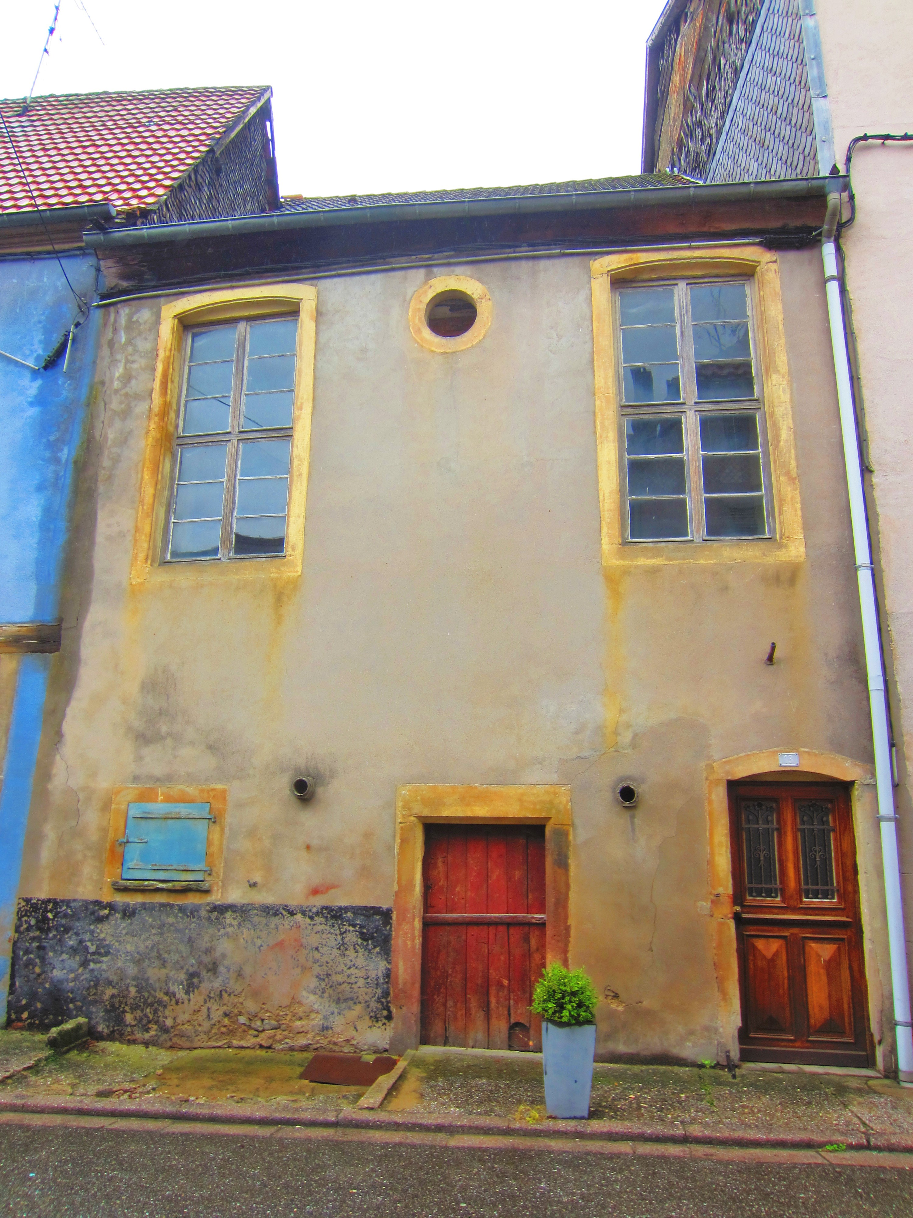 Synagogue of Fénétrange (Lorraine)